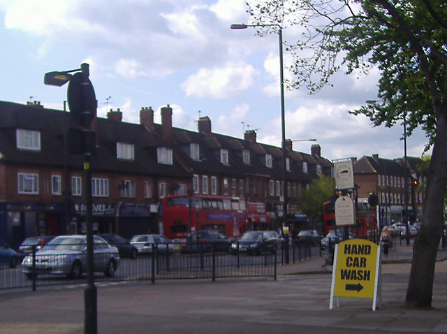 Harrow Weald High Street Typical Middlesex 1930s shopping parade.